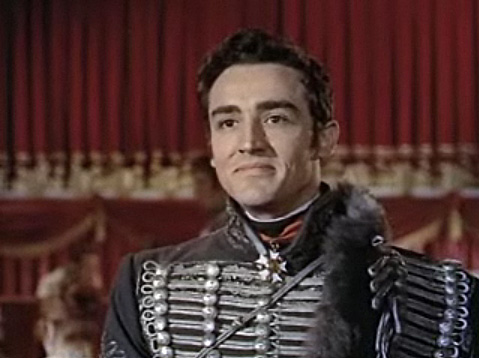 Cropped screenshot of Vittorio Gassman from the trailer for the film War and Peace.